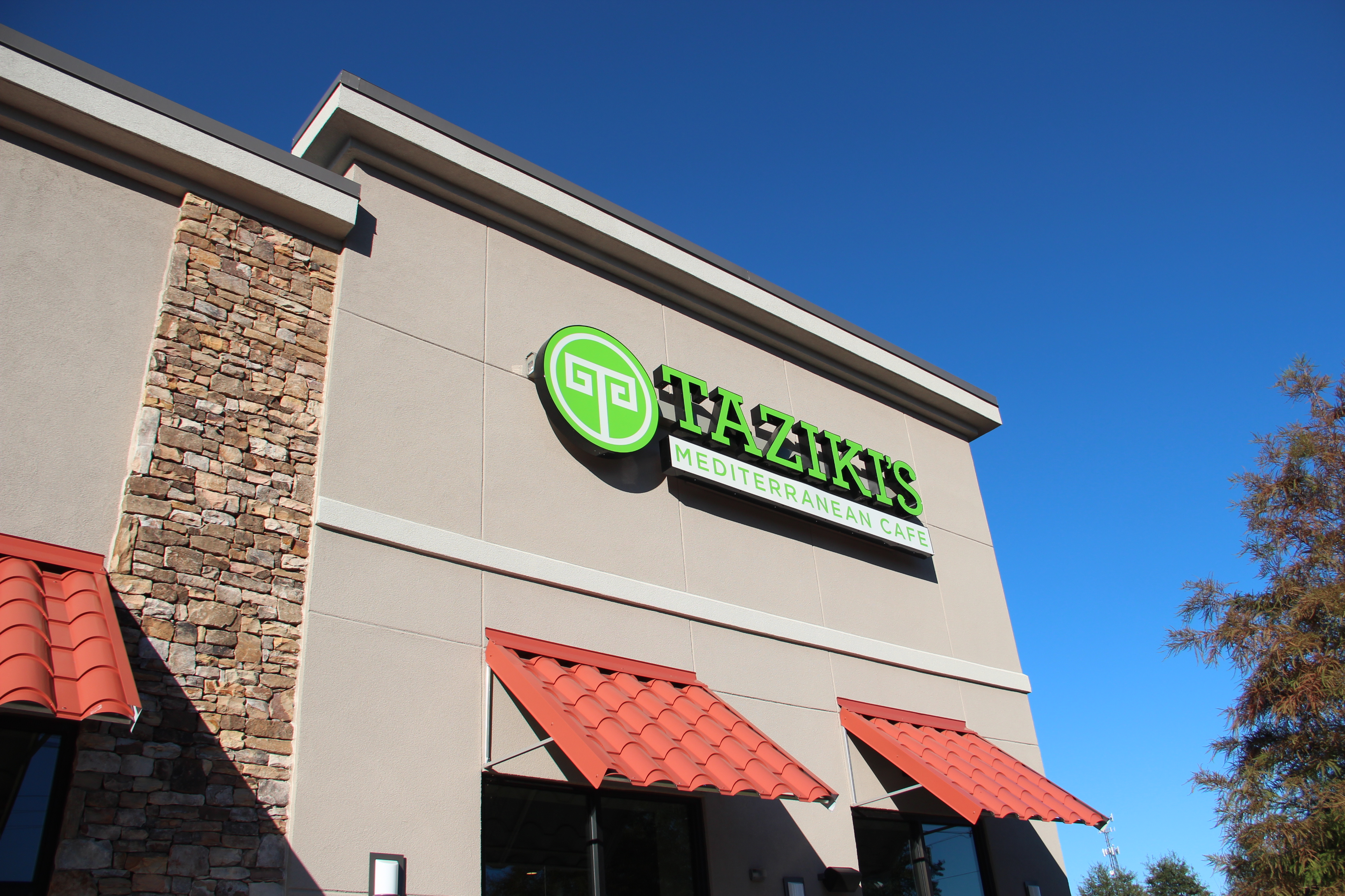 Taziki's Mediterranean Café, Suwanee GA